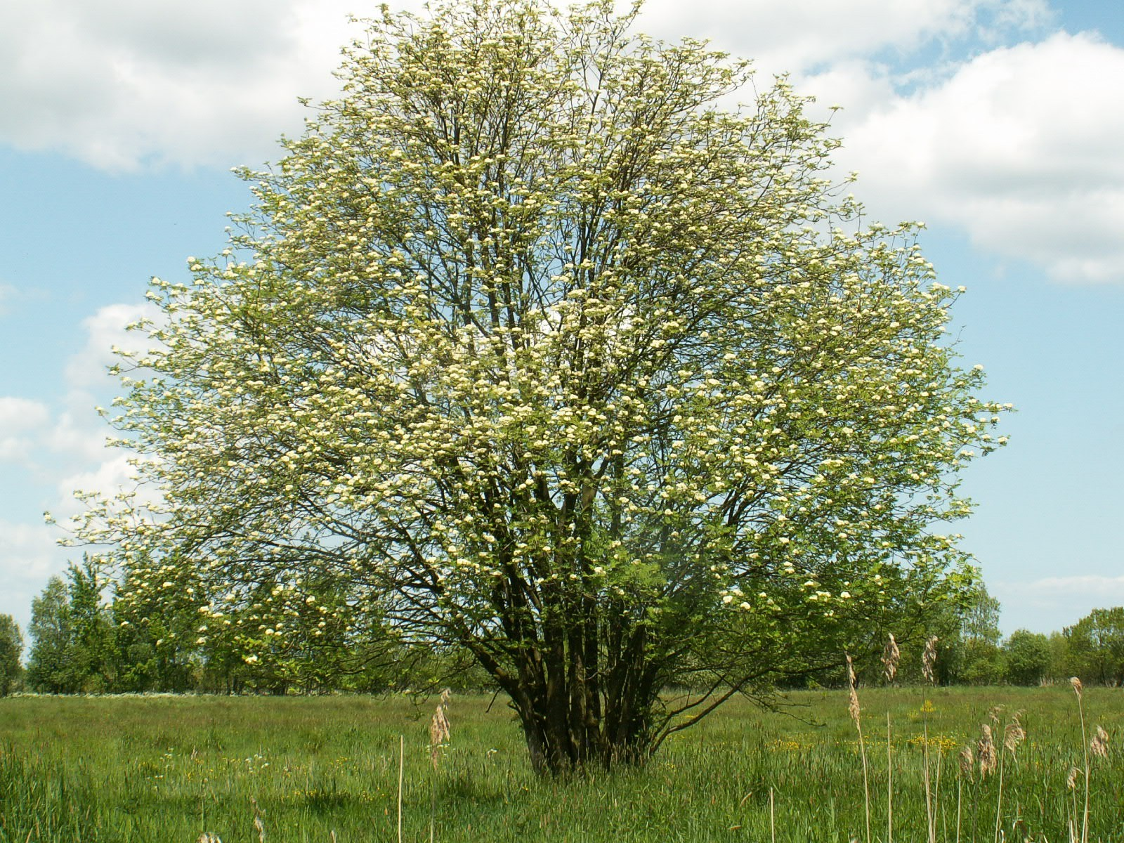 Sorbus aucuparia blooming. Buk near Szczecin, NW Poland.